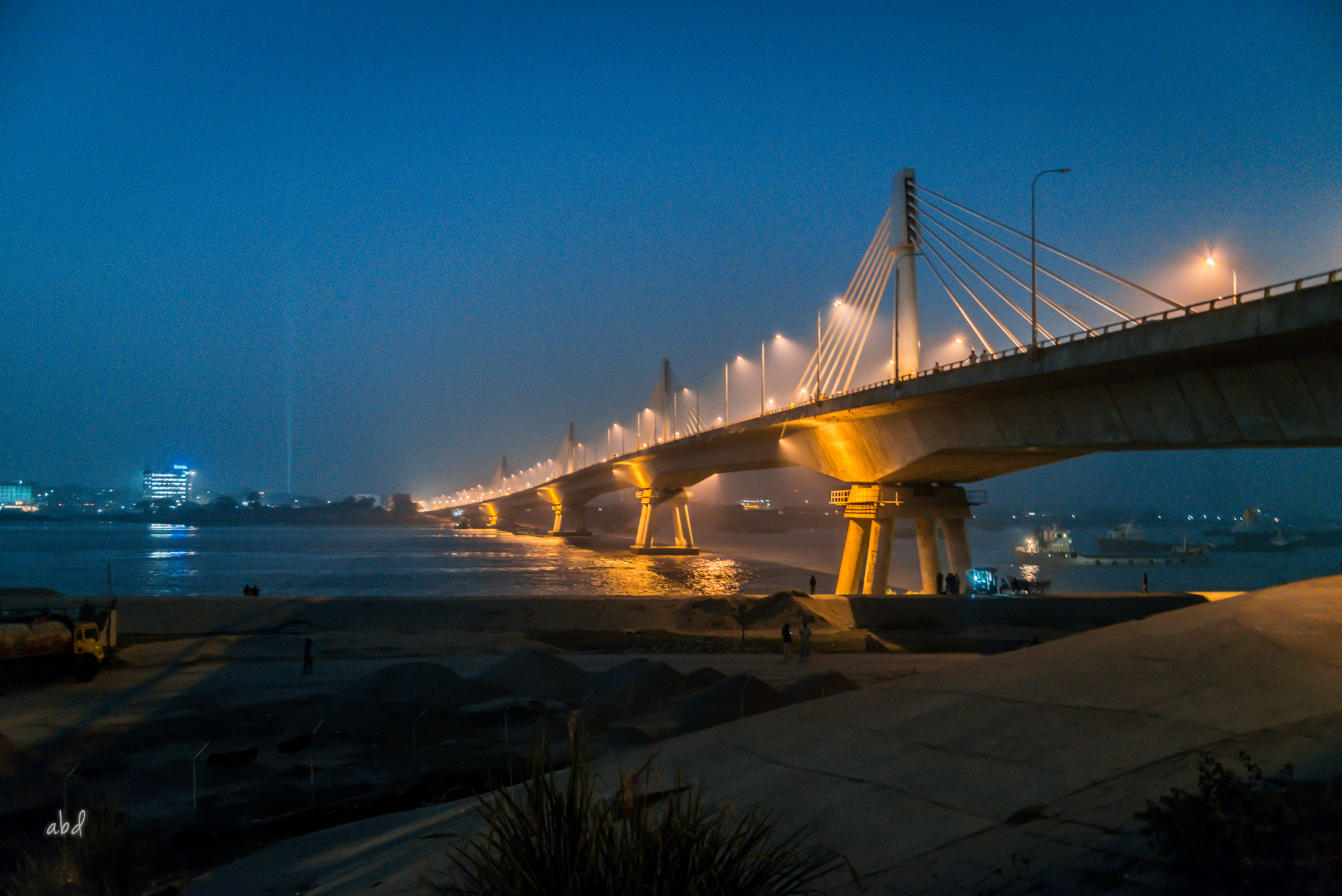 Karnafully Bridge CHittagong